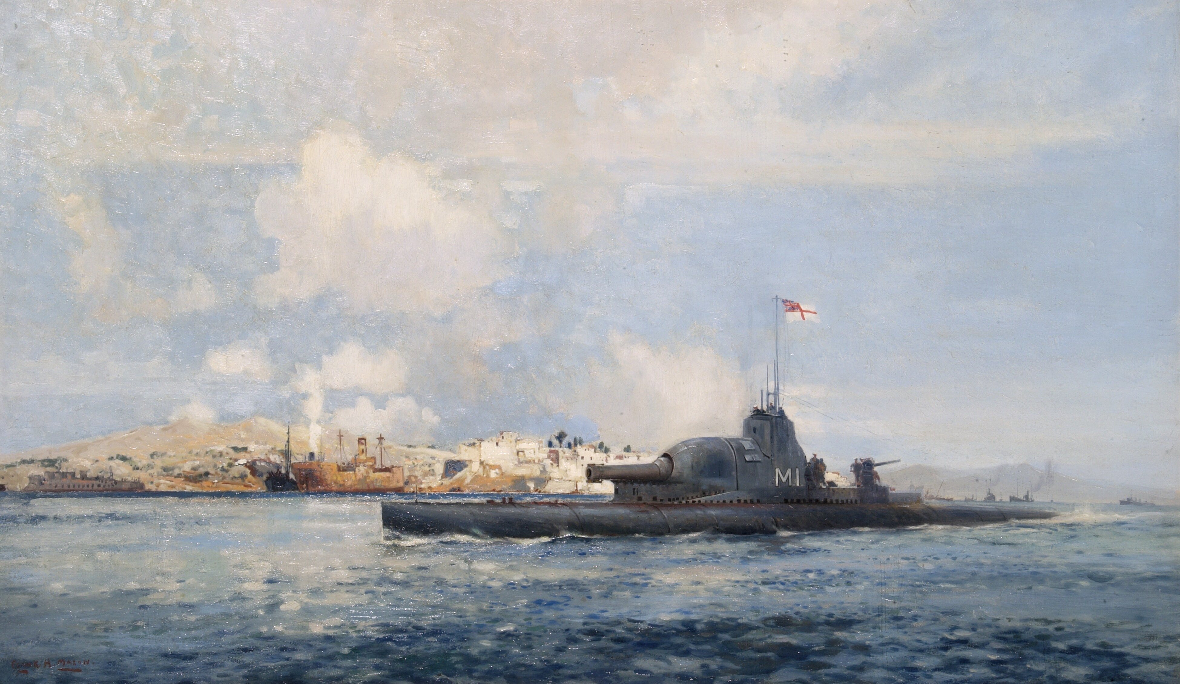 Hm Submarine M1 off Sedd-el-bahr - salvage operations in progress on the transport "river Clyde" image: The submarine monitor HMS/M M1 at sea off the Turkish coast near Sedd-el-Bahr, with the rusted remains of the SS River Clyde in the background by the coastline.